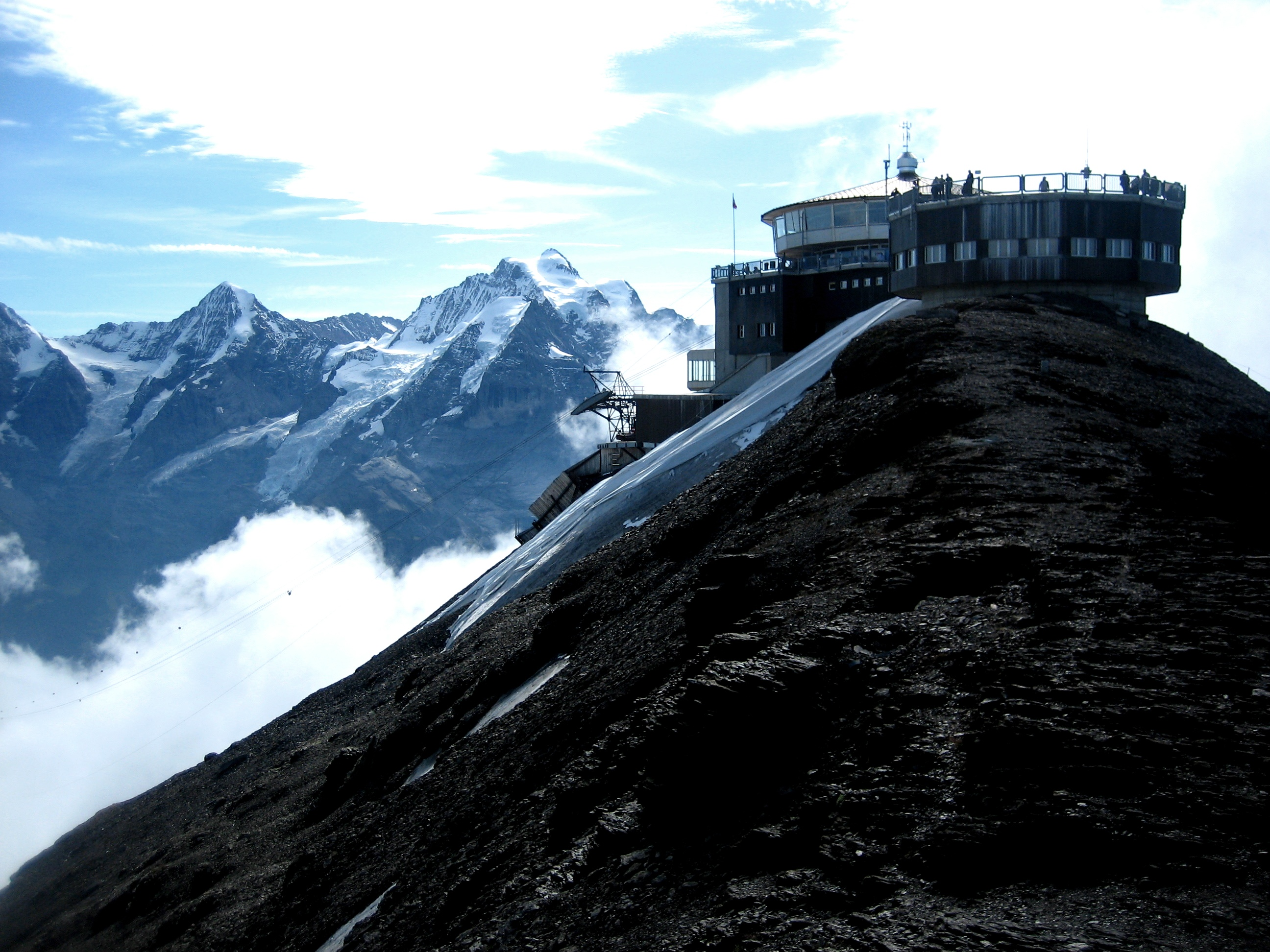 Piz Gloria, Schilthorn, Switzerland. Jungfrau on the left